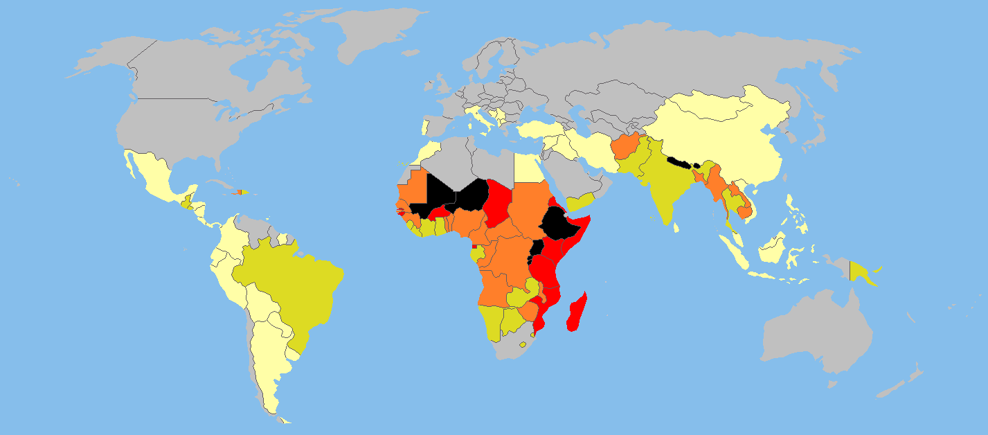 Children at work world map : proportion of children aged 5 to 14 who are involved in a form of childwork.